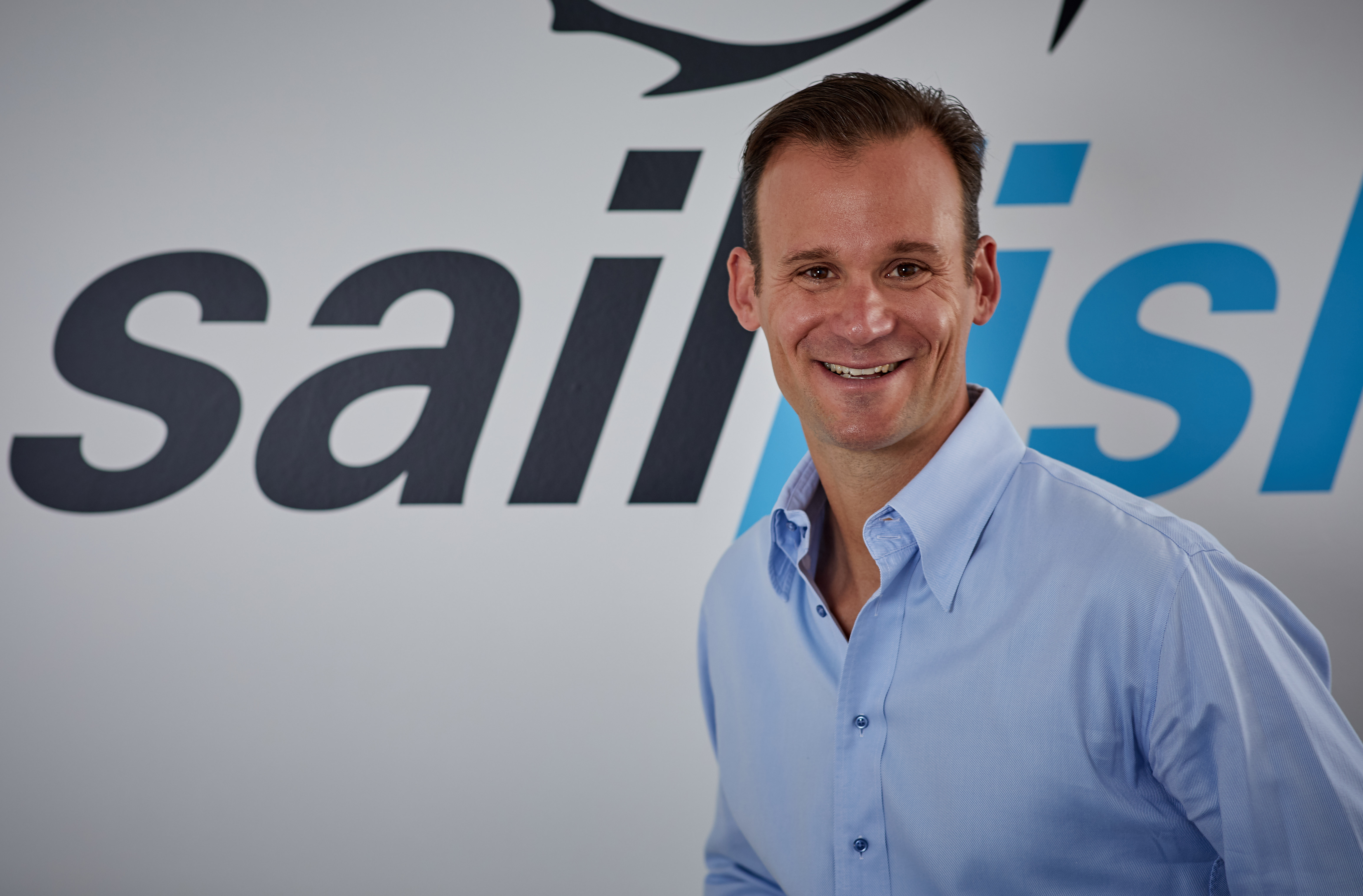 Jan Sibbersen, German Triathlete, Founder and CEO of the brand sailfish